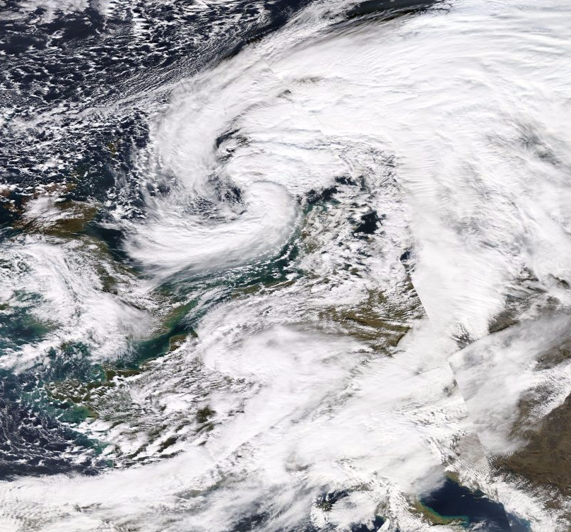 Storm Ewan of the 2016–17 UK and Ireland windstorm season on 28 February 2017.